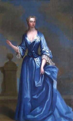 Portrait of Henrietta Churchill, 2nd Duchess of Marlborough (1681-1733)